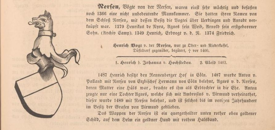 Coat of arms of the Knights of Neersen.